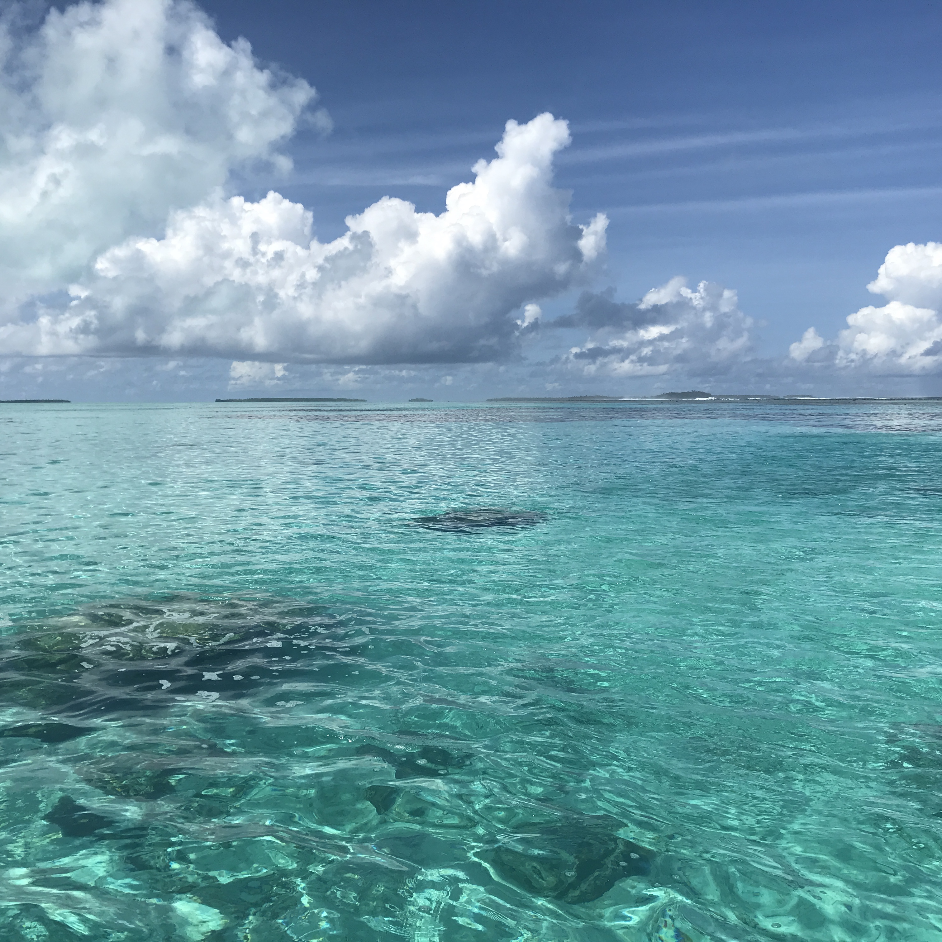 Aitutaki Atoll by Nick Longrich